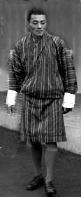 Picture taken on the occasion of the visit of the Maharaja of Bhutan to the International Low-Cost Housing Exhibition in New Delhi. The Maharaja and the Maharani are dressed in the Bhutanese style.